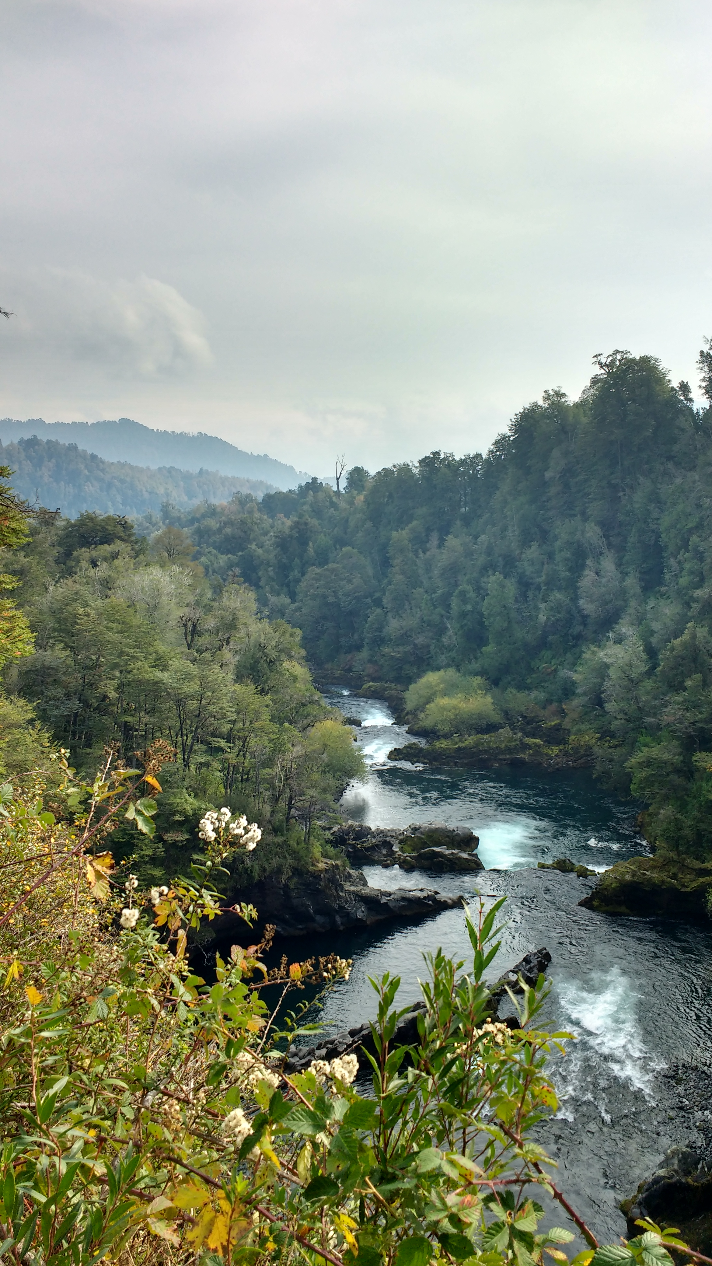 Waterfall de Huilo Huilo in the Huilo-Huilo biological reserve